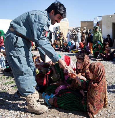 Friendly Afghan police officer and Afghan girls celebrate the opening a new girls' school in Helmand. Original caption: "An Afghan National Police officer passes out literature to local girls during the ribbon cutting for the Laki Girls School, in Garmsir district, Helmand province, Afghanistan, Feb. 15. photo by Sgt. Jesse Stence"